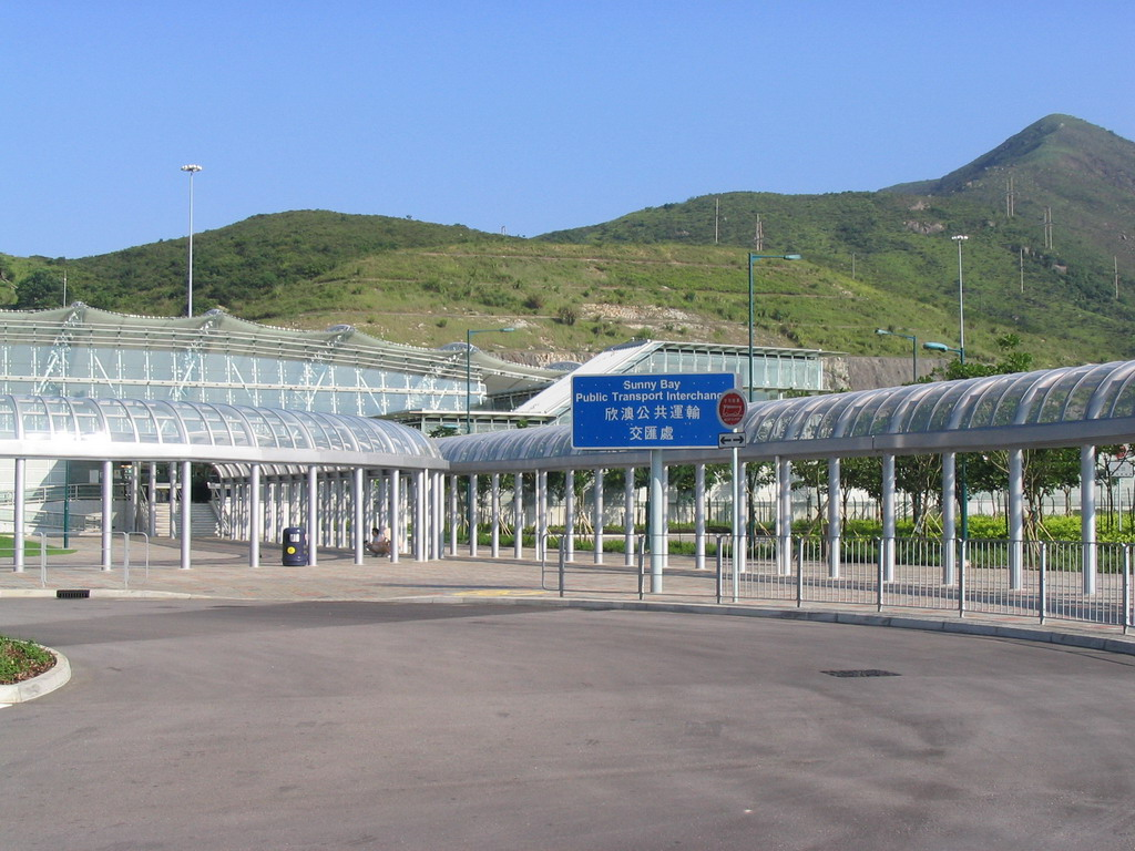 Sunny Bay Public Transport Interchange